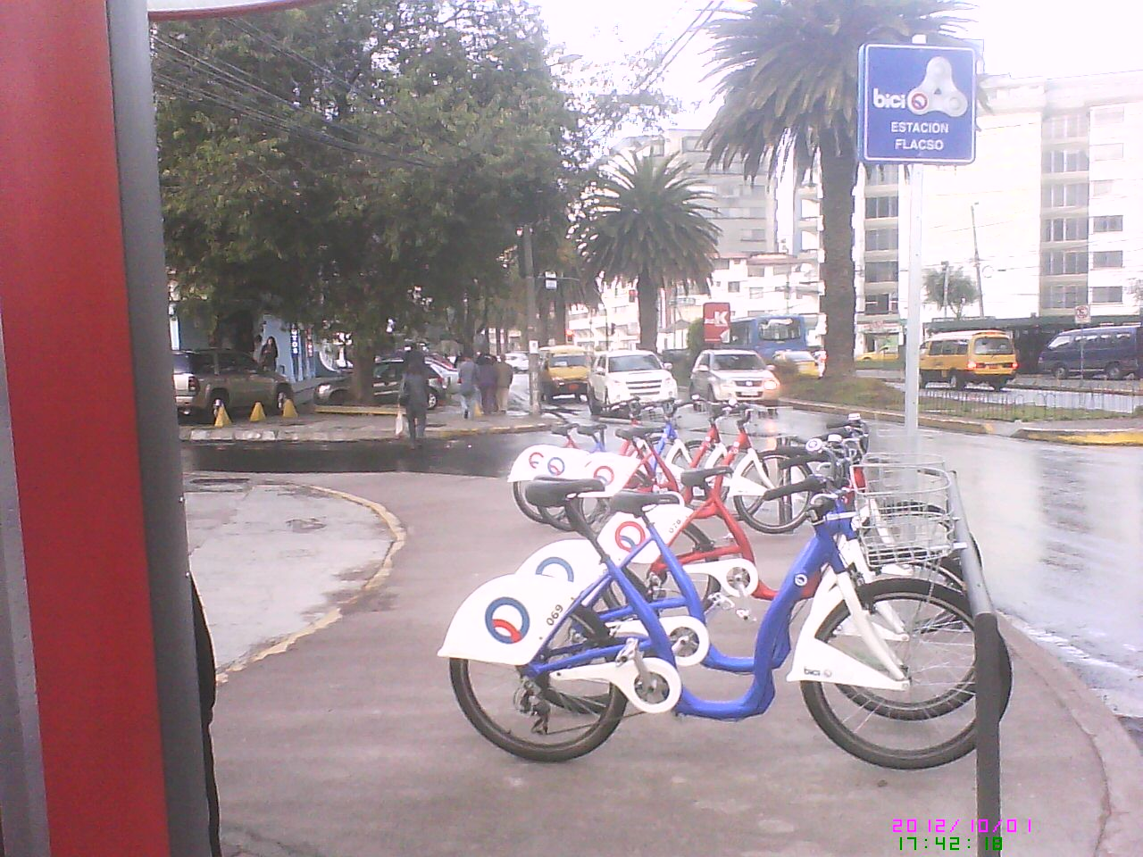 Bici Q station in Quito, Ecuador